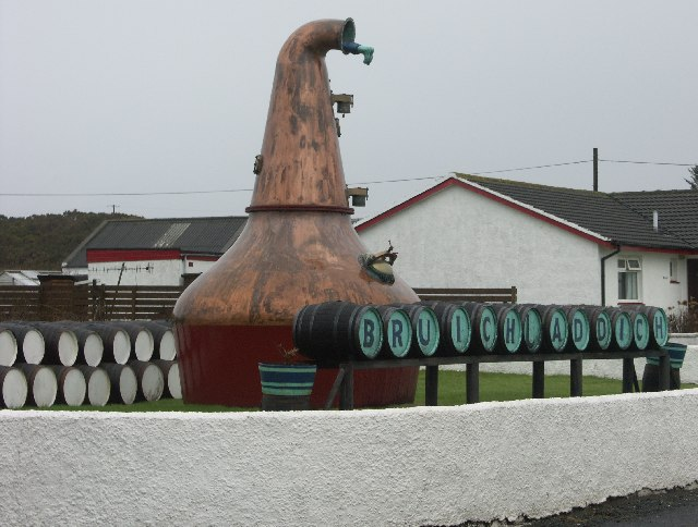 Bruichladdich Distillery, Islay.